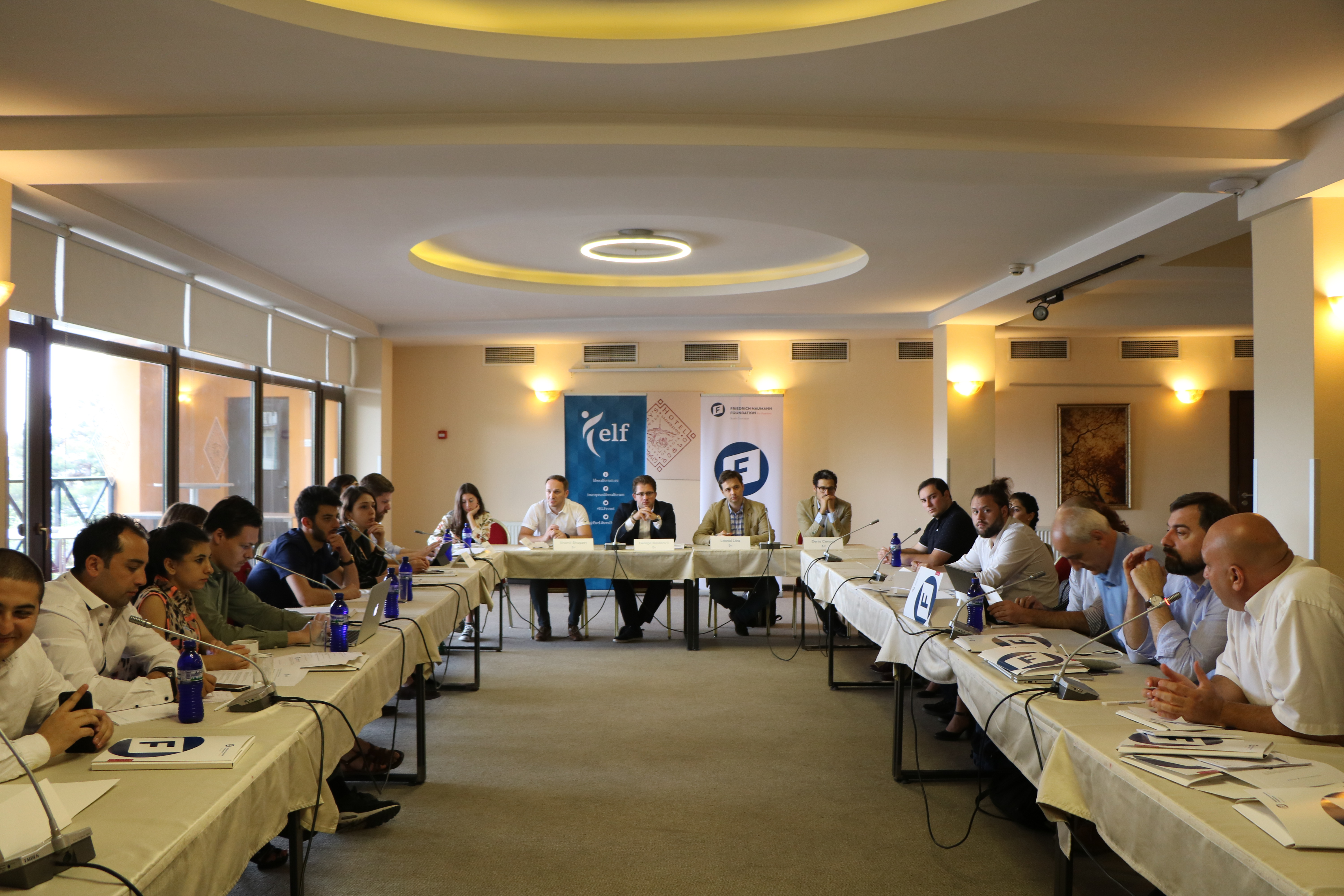 Reviving the Eastern Partnership event held by European Liberal Forum, Friedrich Naumann Foundation and Europe-Georgia Institute.